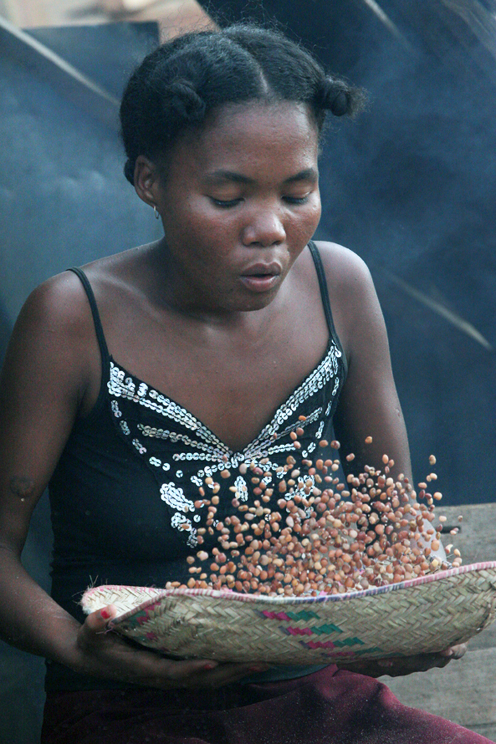 Woman winnowing peanuts on Madagascar.